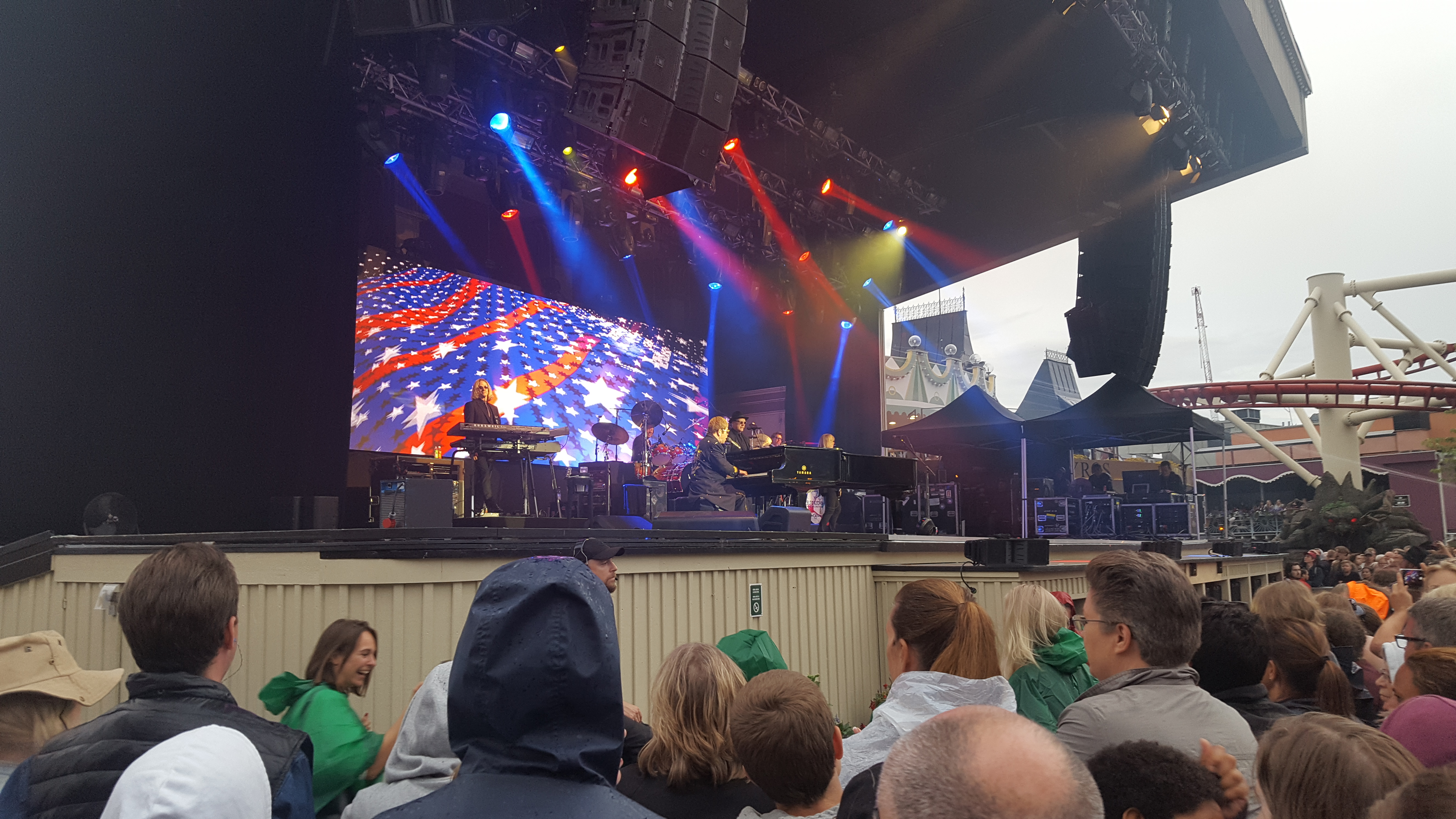 Elton John at Gröna Lund, Stockholm, Sweden